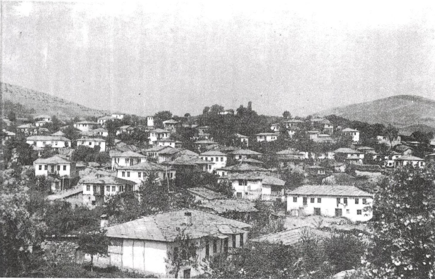 historical photography of the village of Podles in Gradsko Municipality, Macedonia